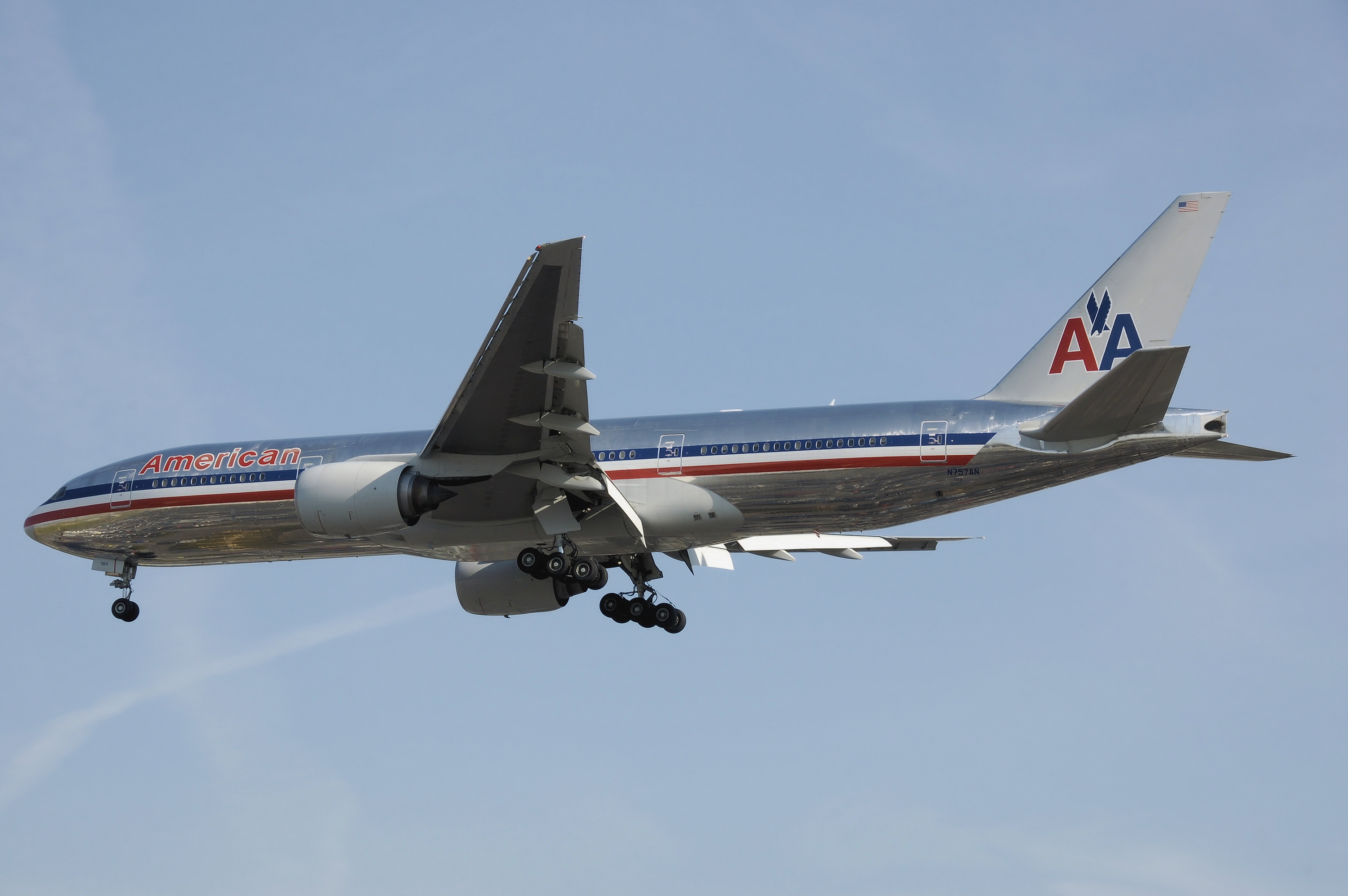 American Airlines Boeing 777-200ER (N757AN) landing at London Heathrow Airport.